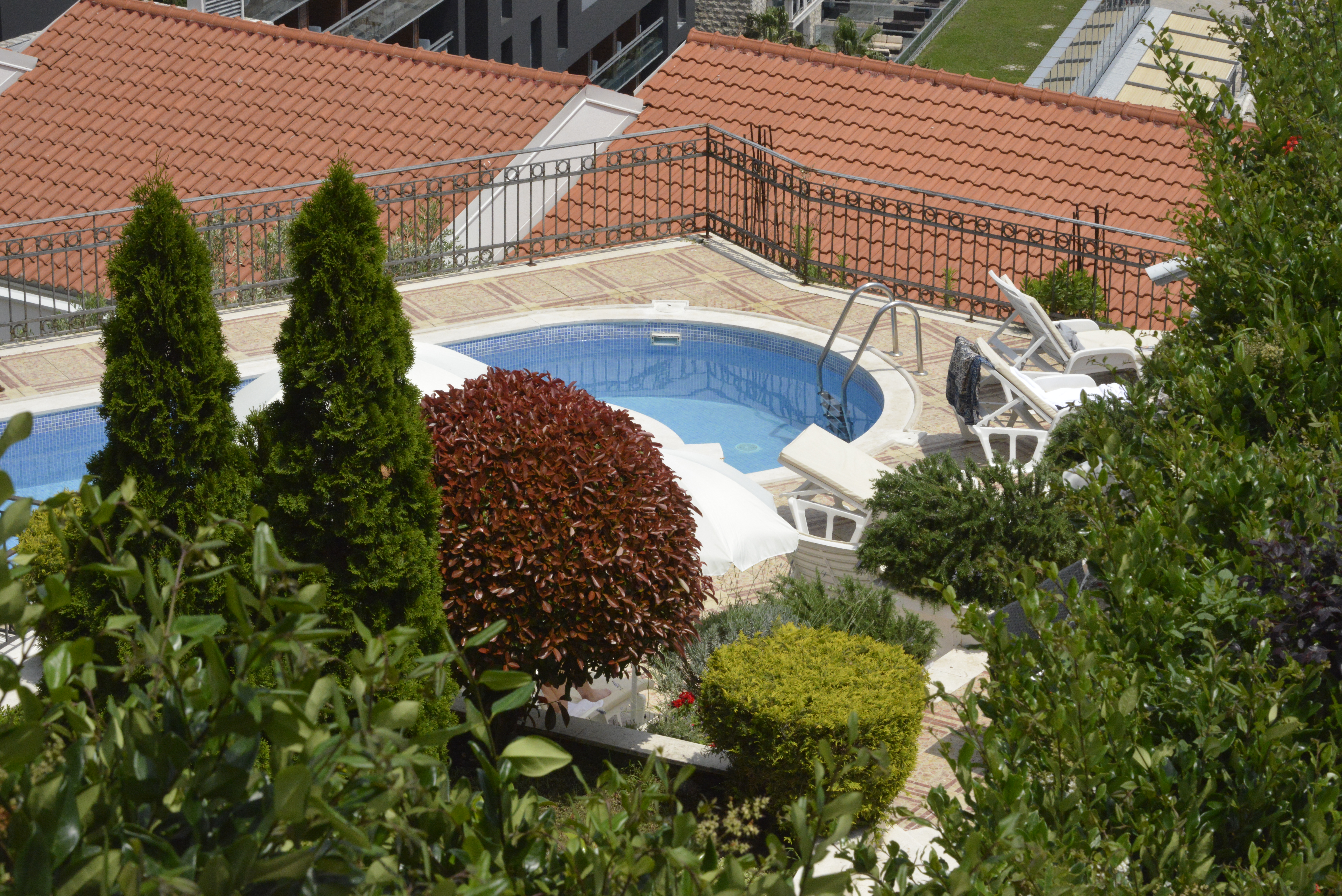 Nature and plants of Budva, Montenegro